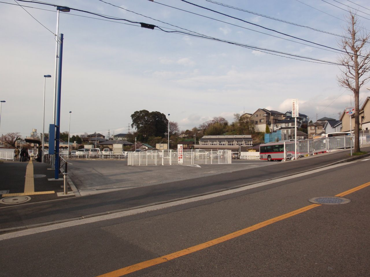 Kakio Sta. Bus Terminal